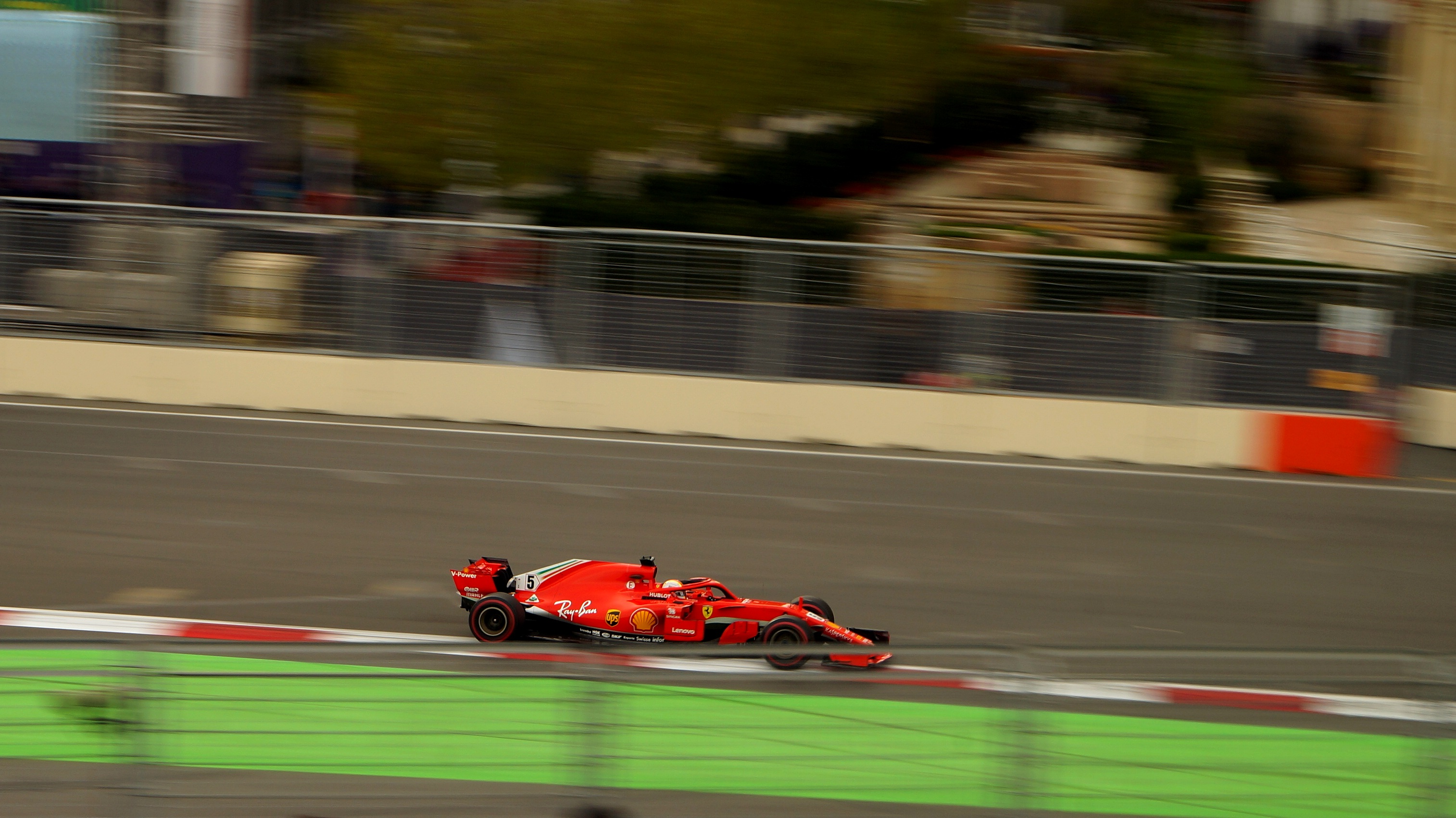 Sebastian Vettel 2018 Azerbaijan GP